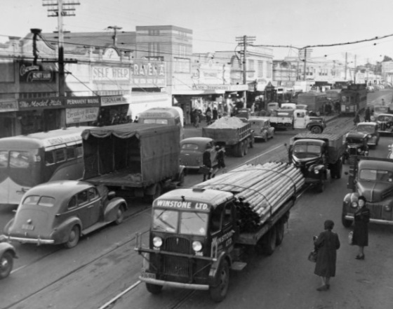 The 'Broadway' main street in the busy Newmarket suburb of Auckland, New Zealand, around 1950. A Winstone truck in the forefront. Extended information on origin webpage reads: Traffic on Broadway, Newmarket, Auckland ca 1950 / Reference number: PAColl-6303-11 / 1 b&w original photographic print(s). Silver gelatin print. / Part of New Zealand Free Lance : Photographic prints and negatives (PA-Group-00079) / Part of New Zealand Free Lance original photographic prints, from the file print collection, Box 4 (PAColl-6303) Photographic Archive / Scope and contents: Cars, trucks, buses, trams and pedestrians in Broadway in Newmarket, Auckland. Taken by an unidentified photographer, circa 1950.